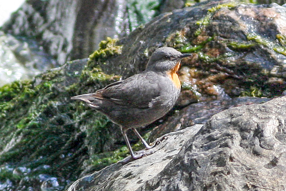 Rufous-throated Dipper (Cinclus schulzii)